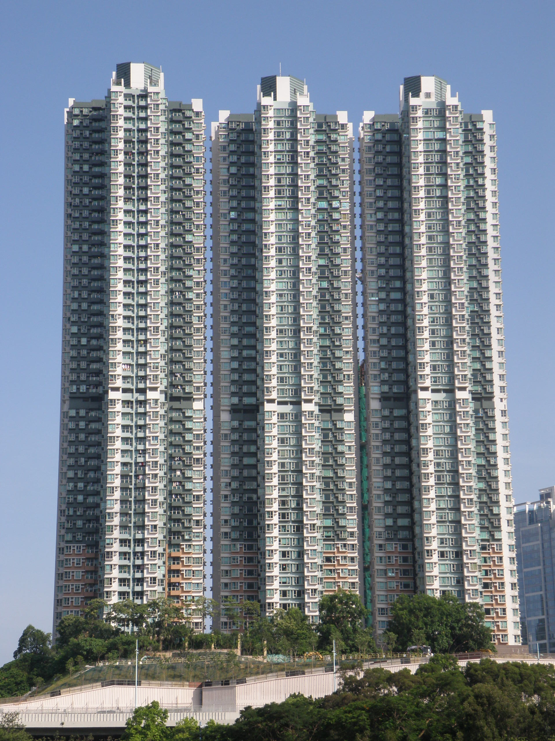 Sham Wan Towers in Ap Lei Chau, Hong Kong.